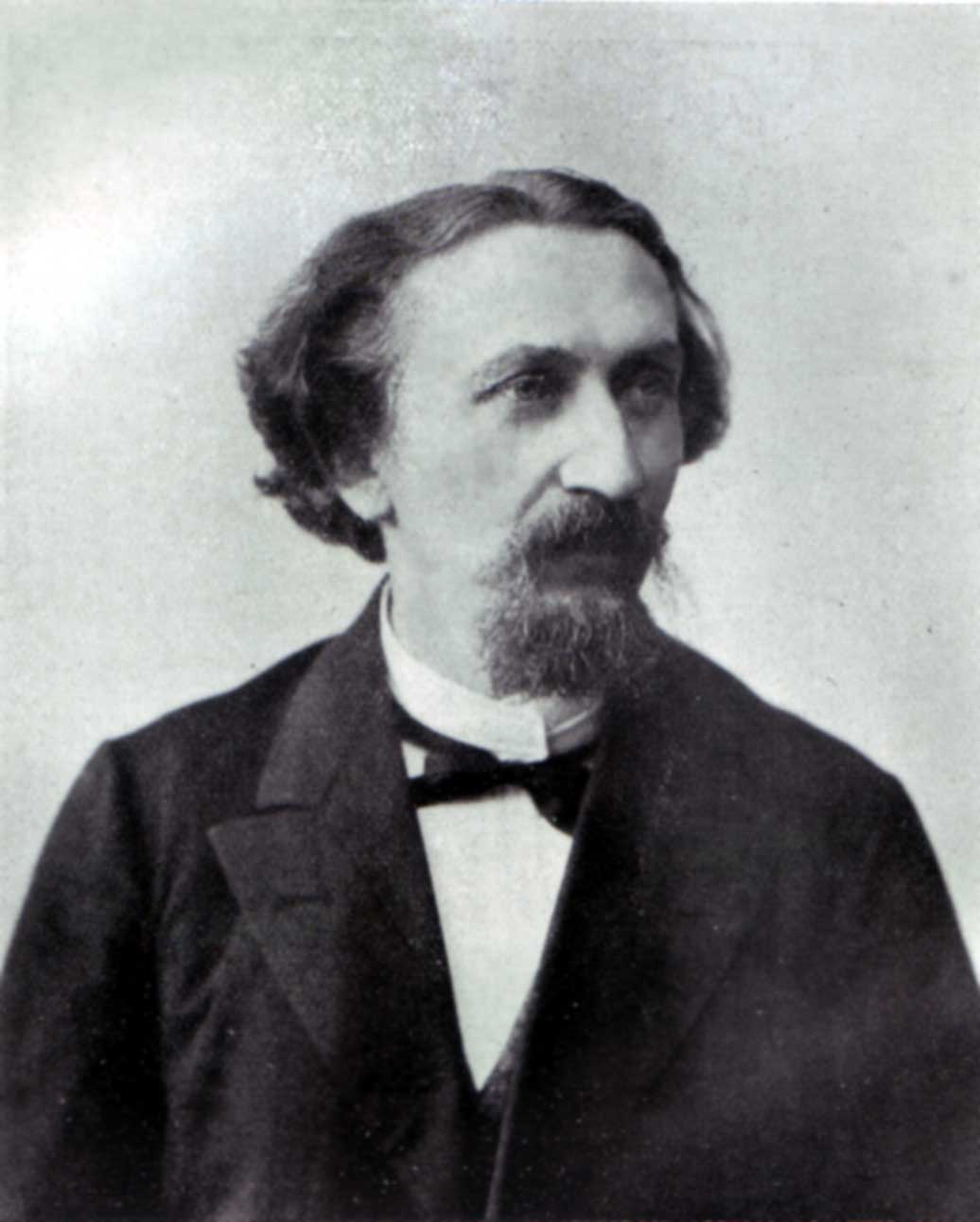 August Johannes Dorner (1846-1920) Protestant theologian from Germany